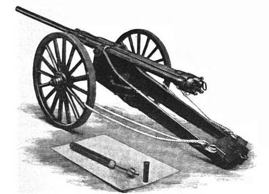 Illustration is from an article on page 341 of the Cosmopolitan magazine entitled, "The Engineering Problem of Aerial Torpedoes" by Hudson Maxim. There is no specific credit for the artist of the illustration. From the Google Books archive: Title The Cosmopolitan, Volume 25 Publisher Schlicht & Field, 1898 Original from the University of Michigan Digitized Dec 8, 2008